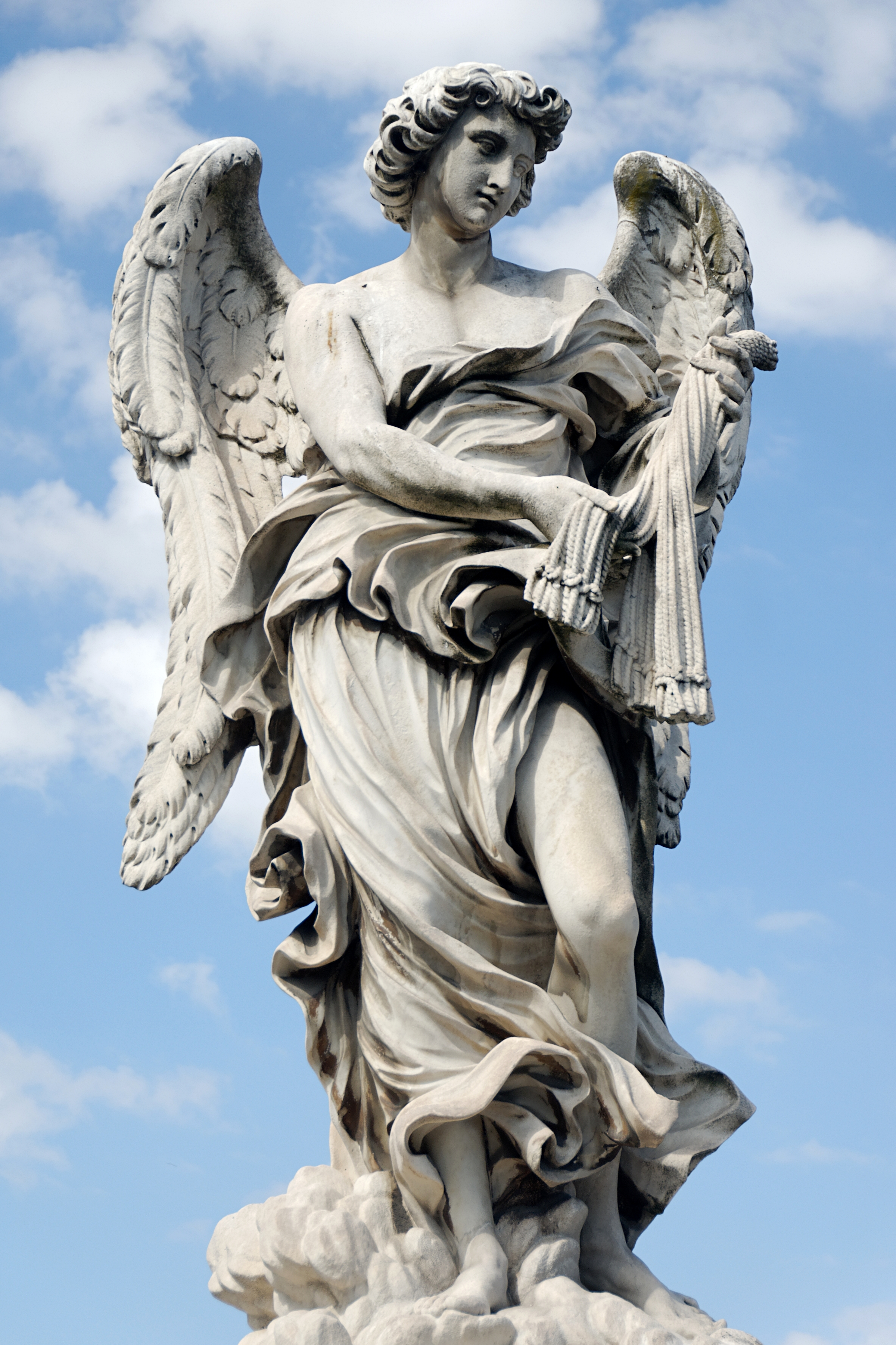 Angel bearing whips by Lazzaro Morelli, with the inscription “In flagella paratus sum” ("I am ready for the whip", Psalms 38:18), western side of the Ponte Sant'Angelo à Rome.